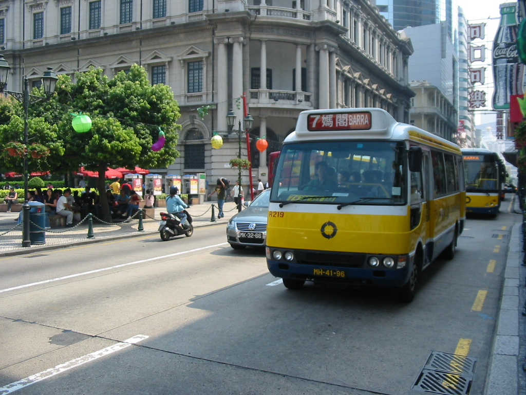 A Transmac Rosa bus running on route no.7.